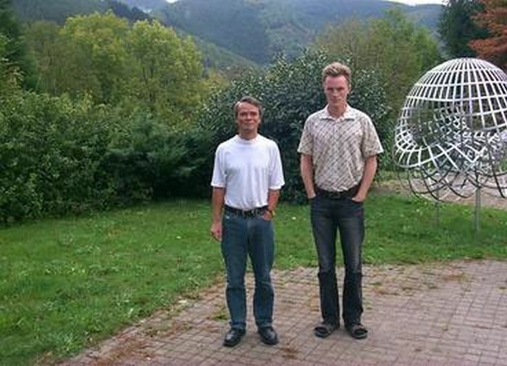 Michael Weiss (left), Søren Galatius (right), Oberwolfach 2003